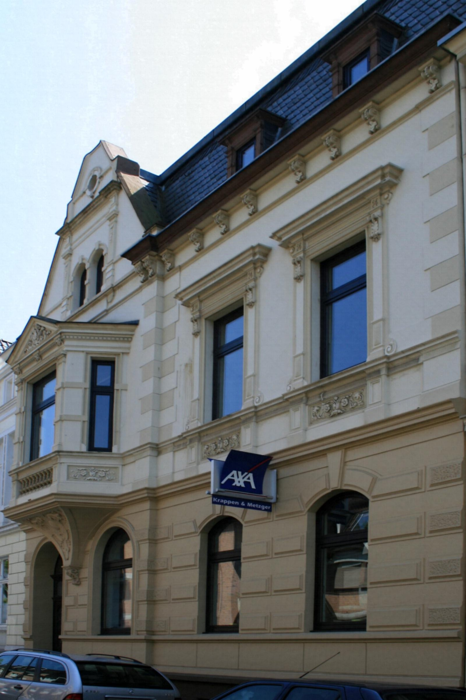 Cultural heritage monument No. W 002 in Mönchengladbach